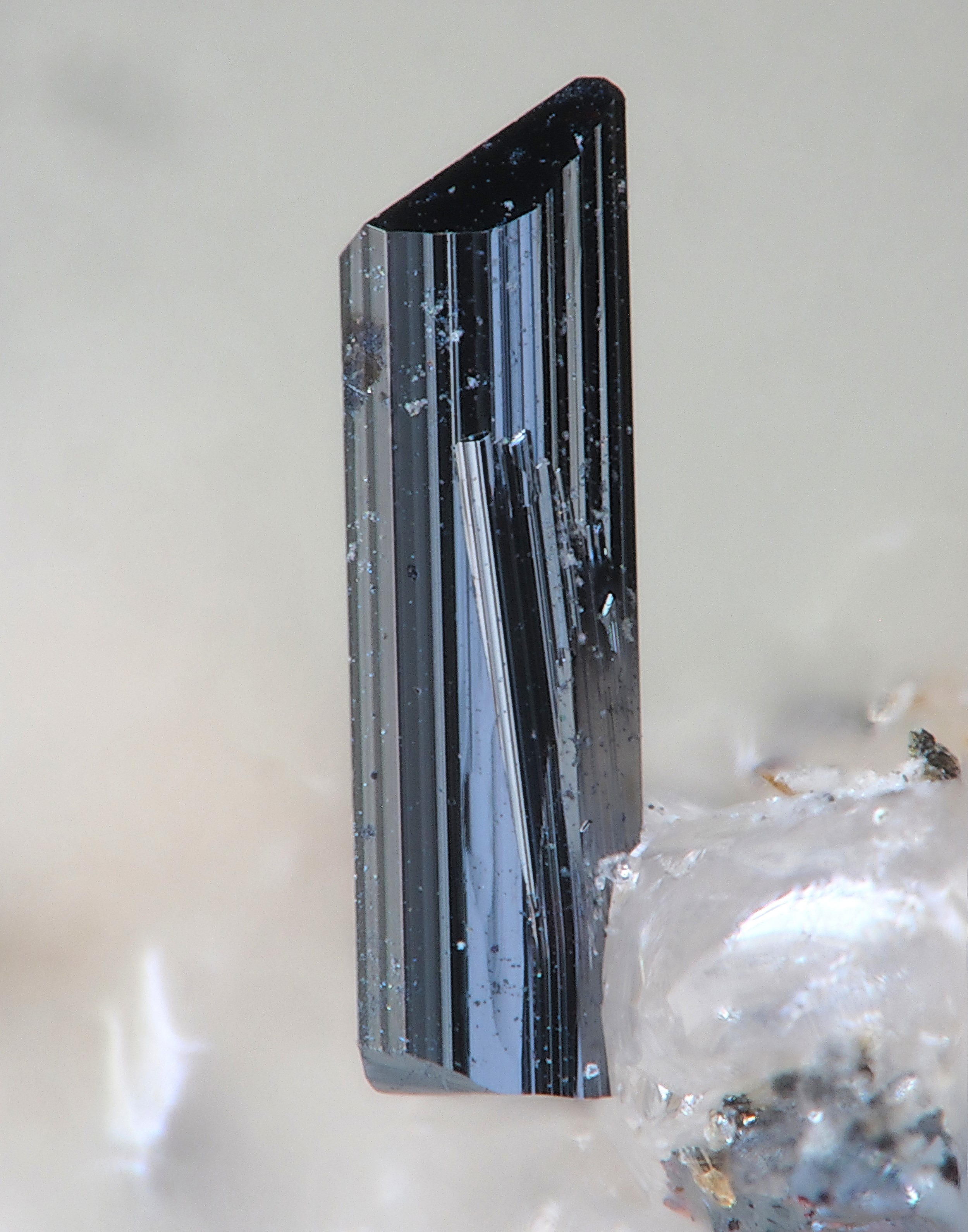 Samsonite (Size 2 mm x 2 mm x 2 mm, field of view 0.8 mm) Locality: Samson Mine, St Andreasberg, St Andreasberg District, Harz, Lower Saxony, Germany Collection and photograph Christian Rewitzer 5.2014 [Visual identification agreed - Rob Woodside - 11/Aug/2014]